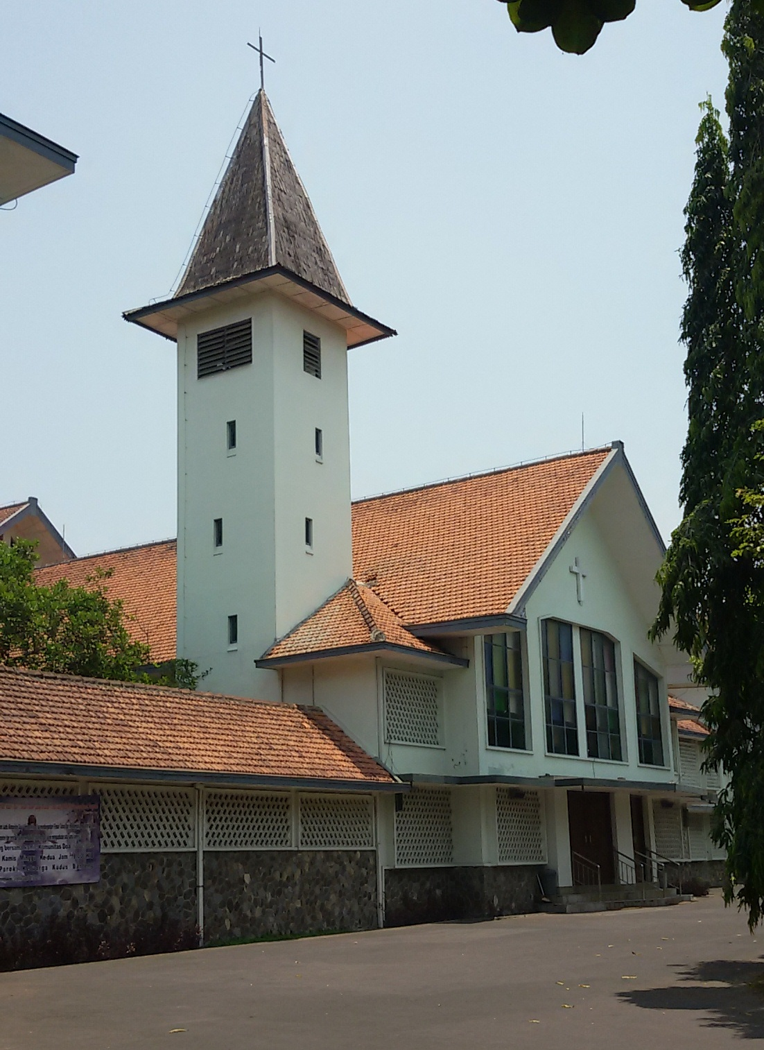 The front side of Holy Family Church, Yogyakarta